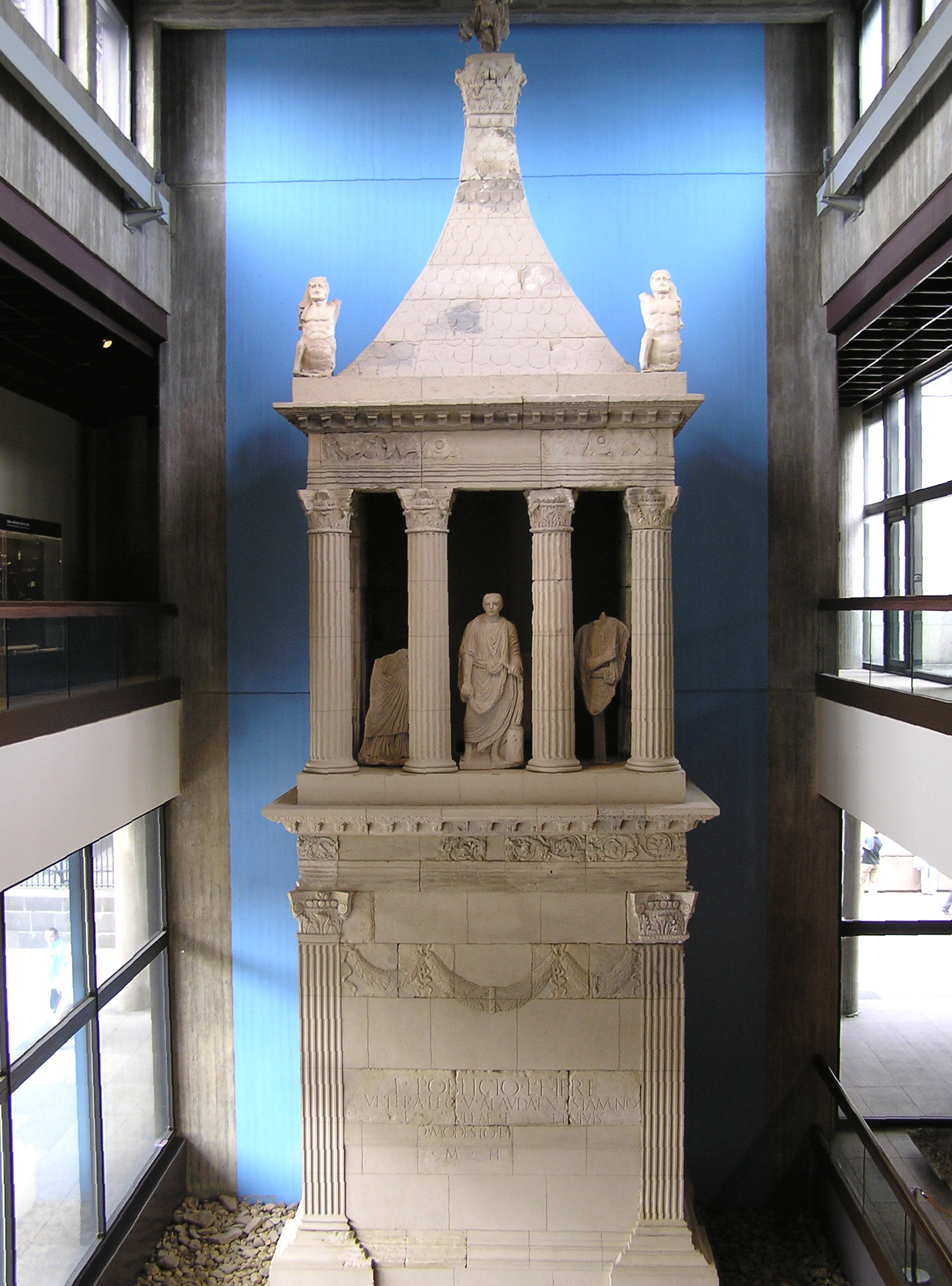 Tomb of Poblicius (~40 A.D.) displayed in the Römisch-Germanisches Museum und Cologne, Germany.